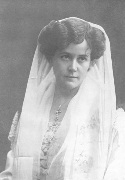 Swedish actress Frida Winnerstrand (1881-1943) Publicity photo, Vasateatern 1908. Photgraph: Jæger.